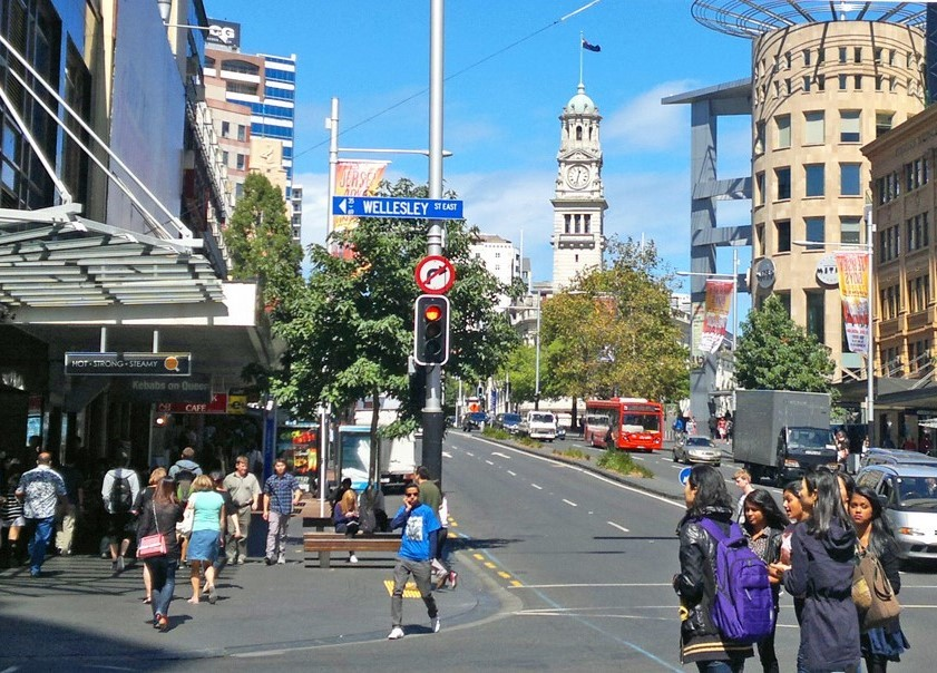 Midtown area in downtown Auckland, New Zealand